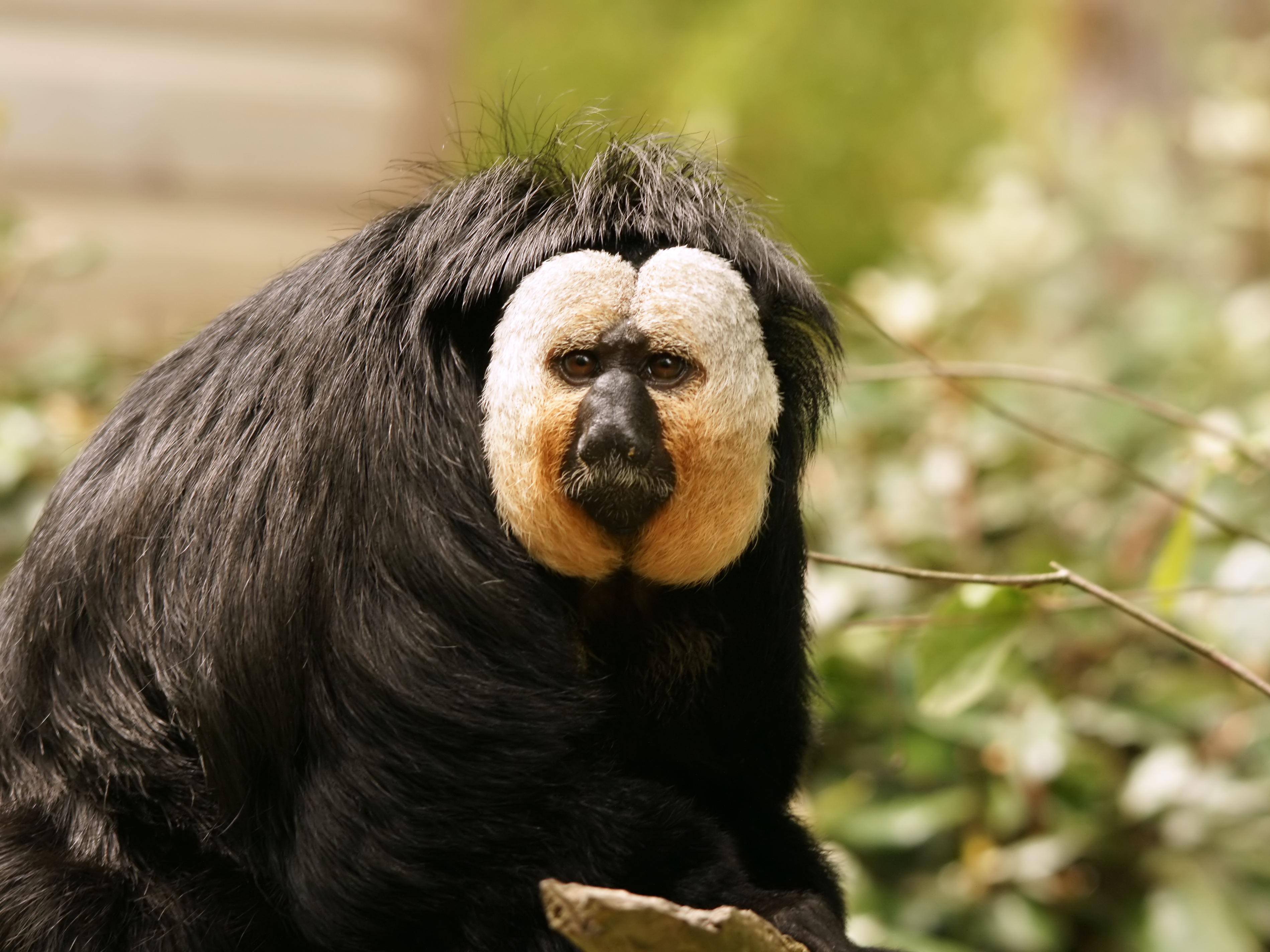 Male White-faced Saki at La Vallée de Singes, at Romagne (Vienne, Poitou-Charentes), France.